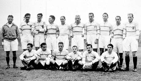 Argentine rugby union team San Isidro Club in 1939, the year that the club won its first Torneo de la URBA championship.